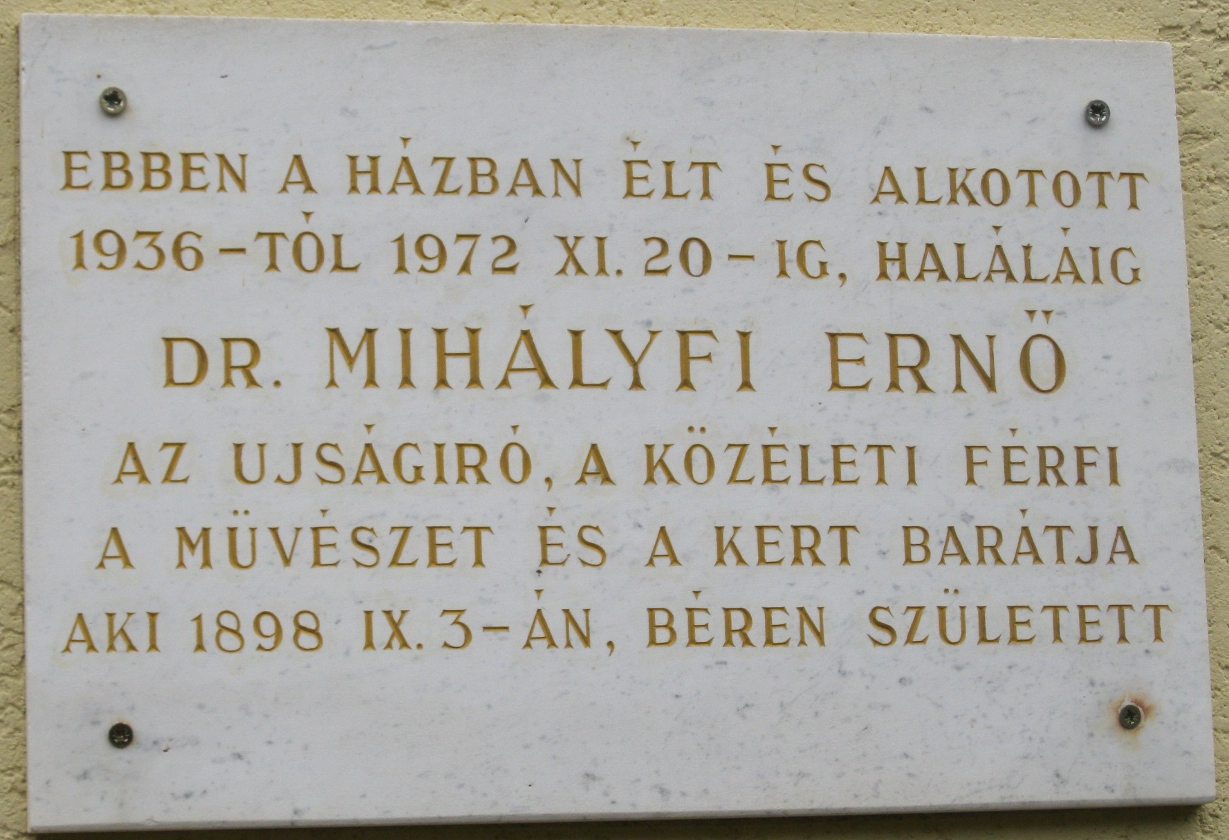 Ernő Mihályfi commemorative plaque in Budapest District II, Bogár Street No 25